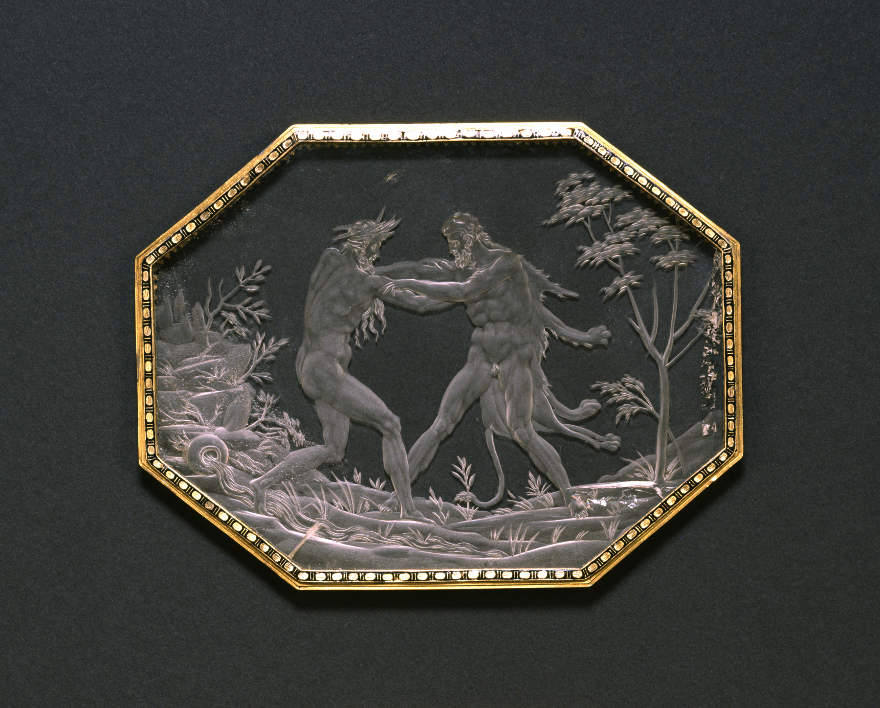 This engraved plaque, along with Walters 41.70, show scenes from the life of the mythological hero Hercules and were initially set into a sumptuous, gilded casket that belonged to the ducal Gonzaga family of Mantua. Hercules was famous for his strength and virtue, and princes often surrounded themselves with his image as an ideal for (and an idealized image of) themselves. The rivalry of Hercules and the river-god Achelous was narrated in the Roman poet Ovid's The Metamorphoses. Both were suitors of Deianira, the beautiful Greek maiden who became Hercules's wife. Annibale Fontana's genius as an engraver comes through in details such as the spiky underbrush of the riverbank and the shaggy lion's skin that Hercules wore.